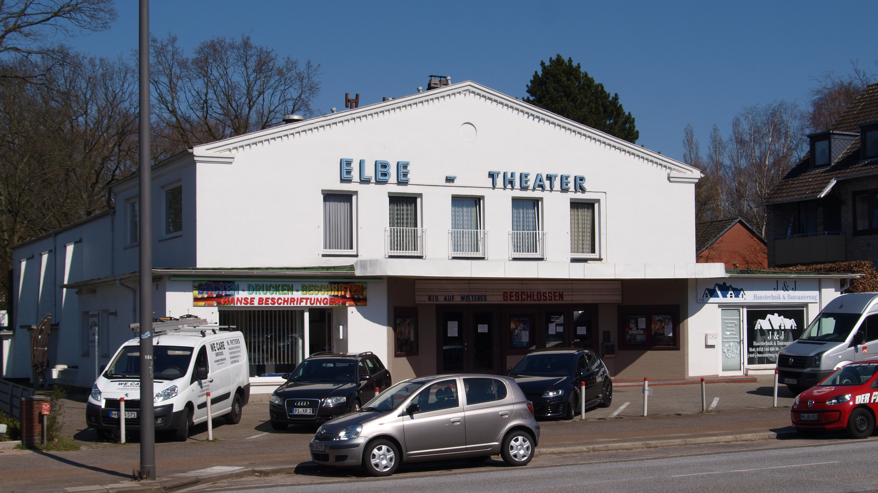 Elbe-Filmtheater . Cinema at Osdorfer Landstraße 198, 22549 Hamburg-Osdorf, Germany. Temporarily closed due to the COVID-19 pandemic.